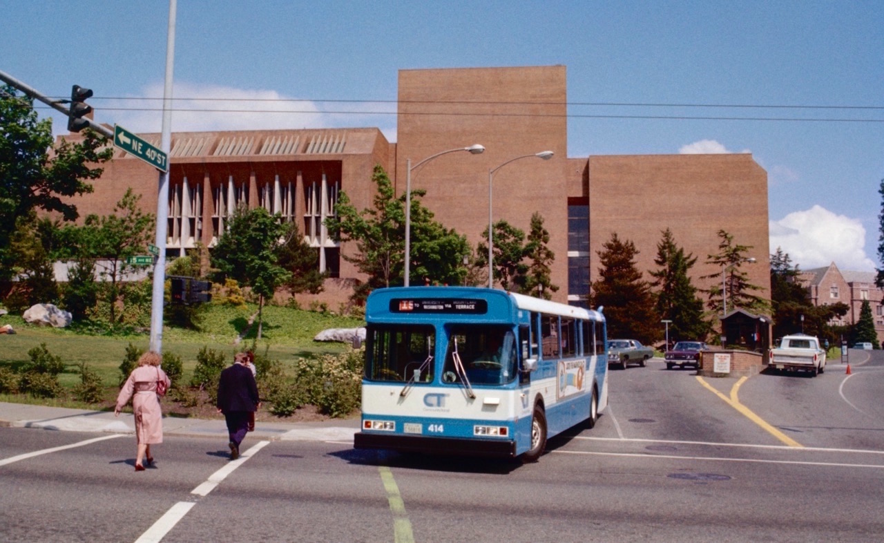 Community Transit bus 414, a 1981 Flyer D901 bus, leaving the main campus of the University of Washington and turning north onto 15th Avenue East. The Meany Hall for the Performing Arts fills the background.